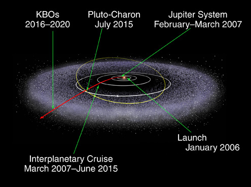 Trajectory of New Horizons spacecraft